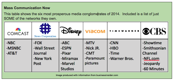 corp own